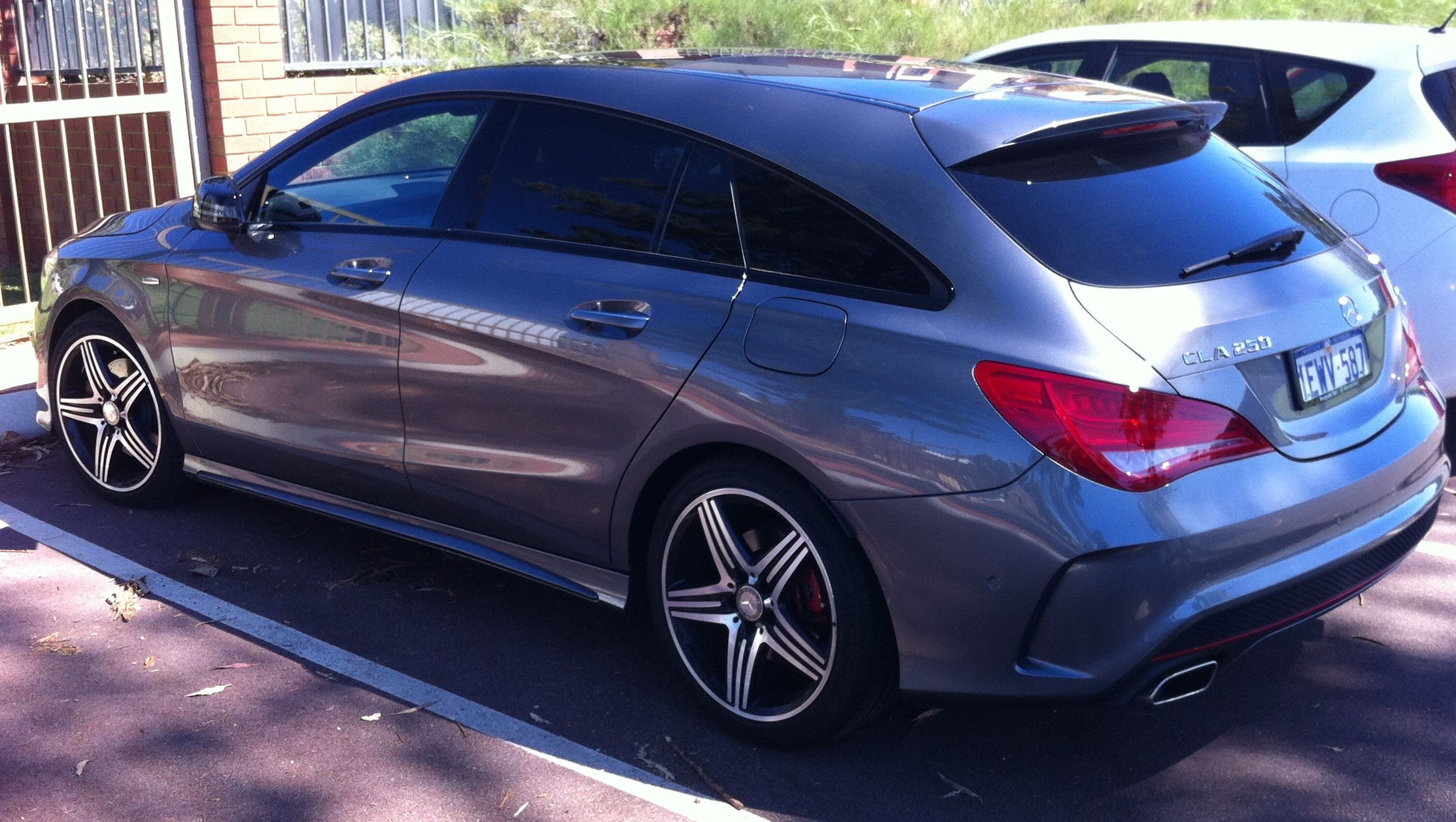 2015 Mercedes-Benz CLA 250 (X 117) Sport 4MATIC station wagon. Photographed in Swanbourne, Western Australia, Australia.